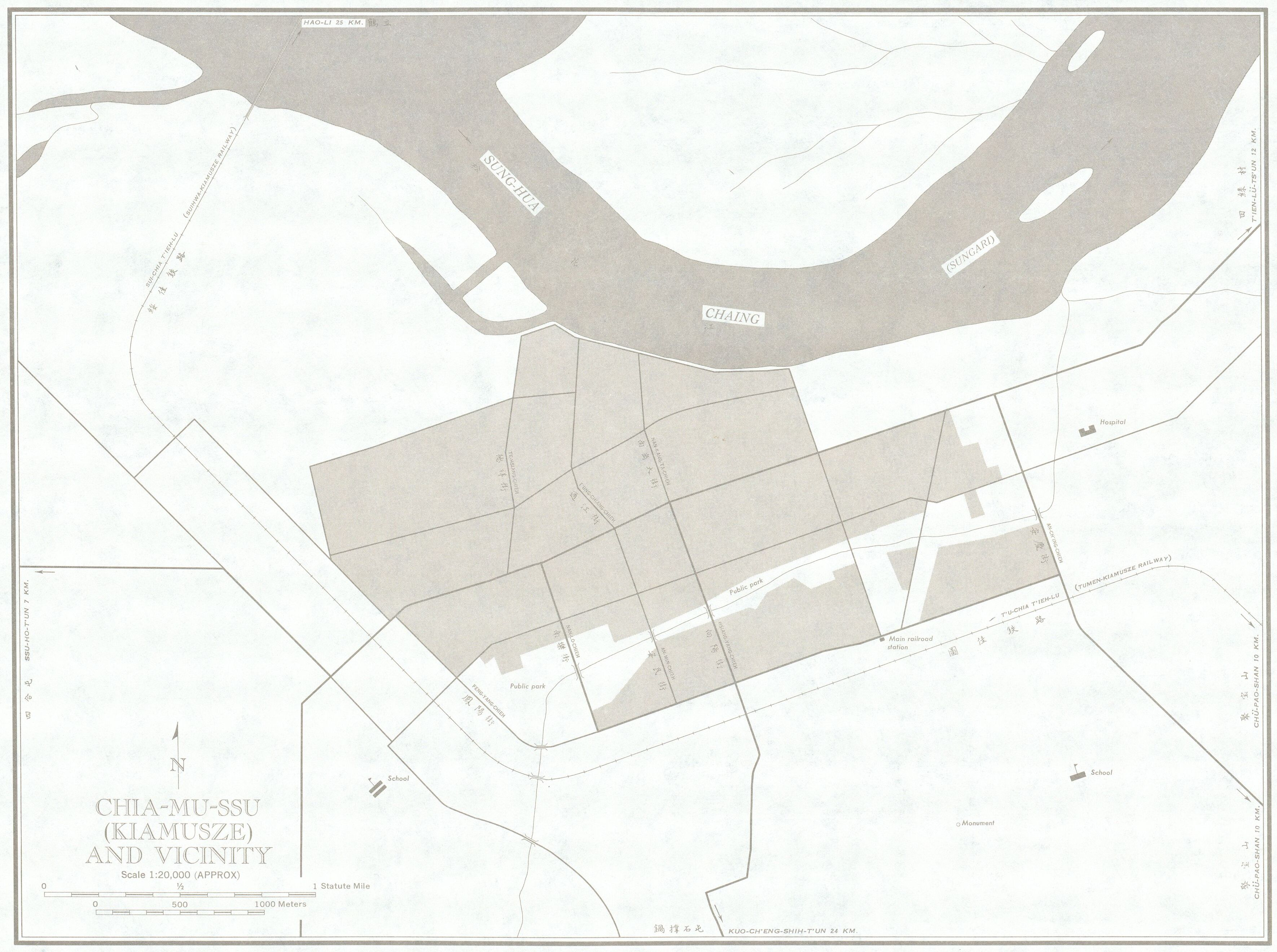 Manchuria AMS Topographic Maps